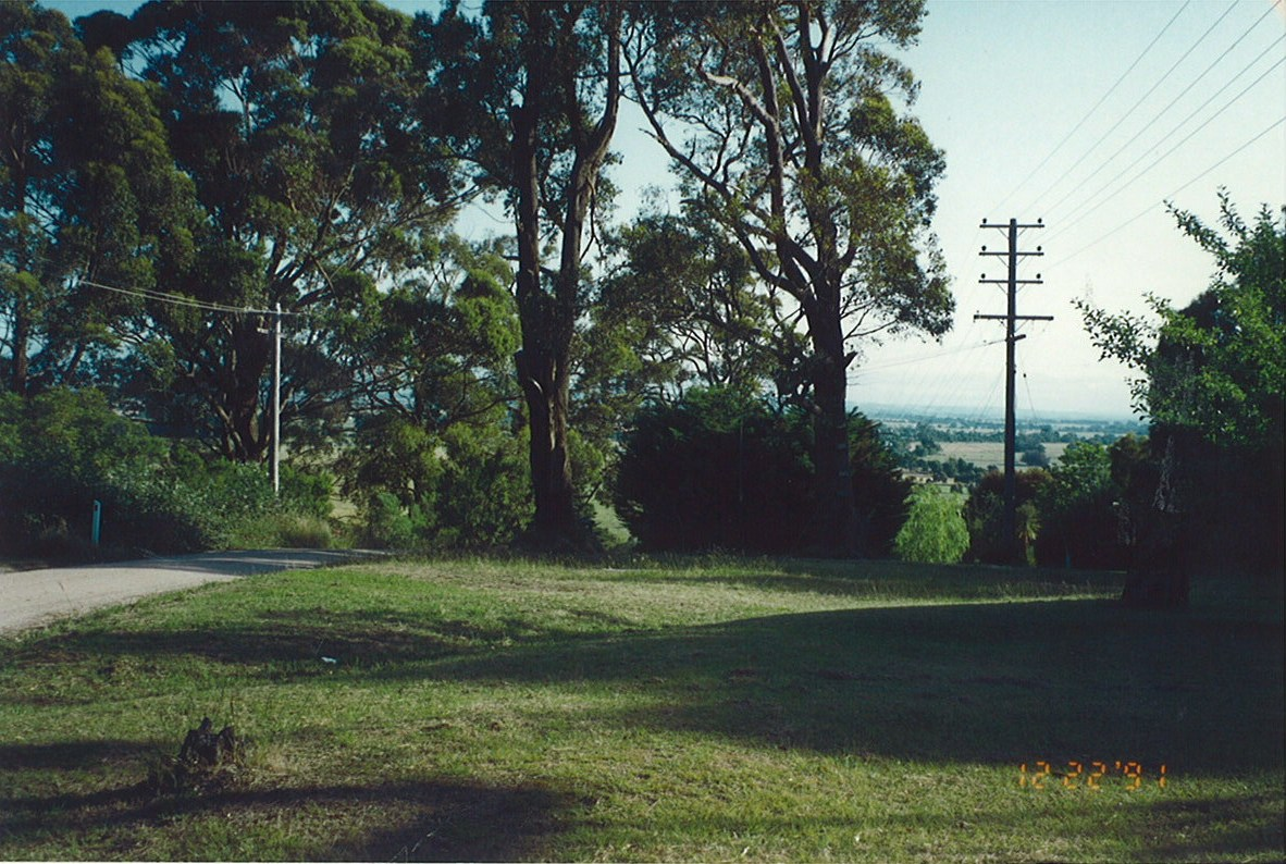 Photo from A'Beckett Road